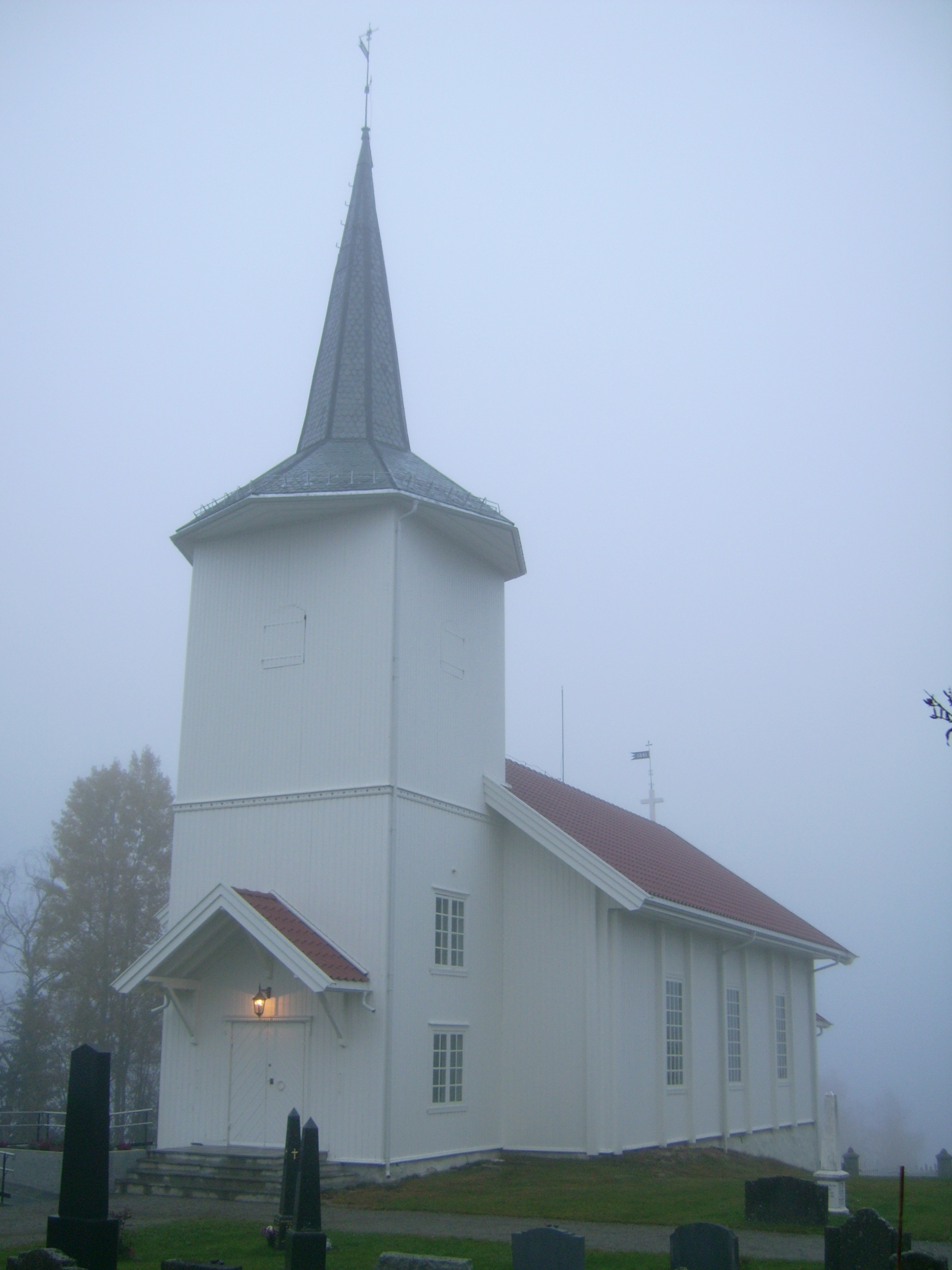 Sørum church, Gran, Norway